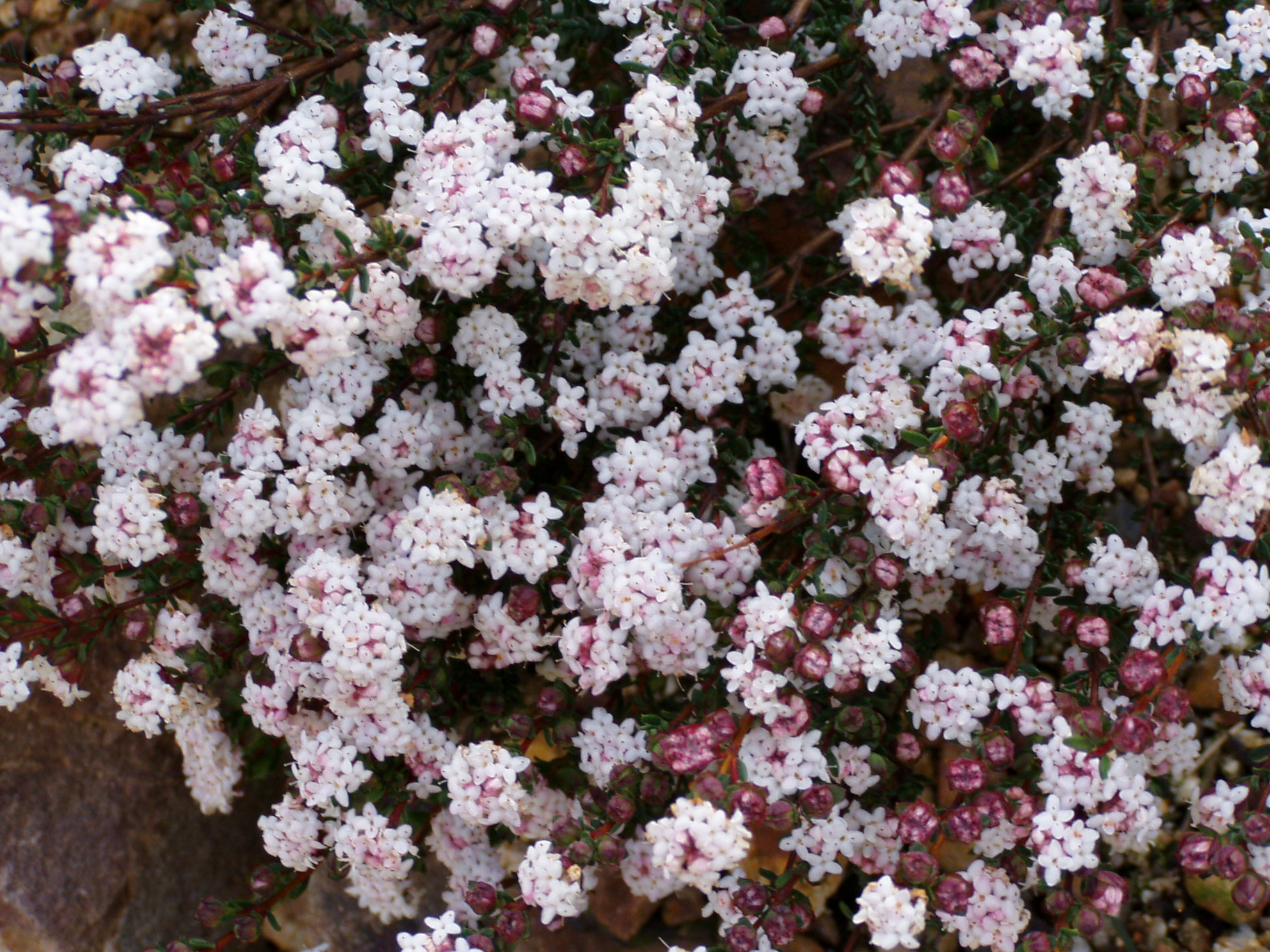 Description: Pimelea brachyphylla Location: Australian National Botanic Gardens, Canberra, Australian Capital Territory, Australia Date: 2005-09-21 Source: picture taken by Danielle Langlois Licence: Released under GFDL and Creative Commons licenses by the photographer